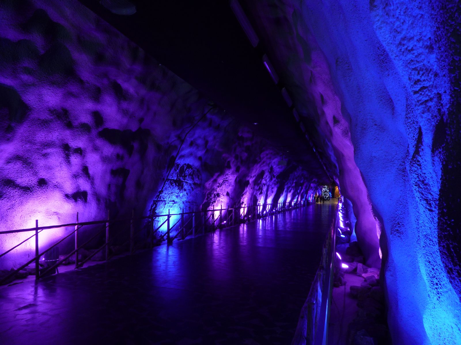 The tunnel down to the underground Santa Park in Rovaniemi, Lapland, Finland